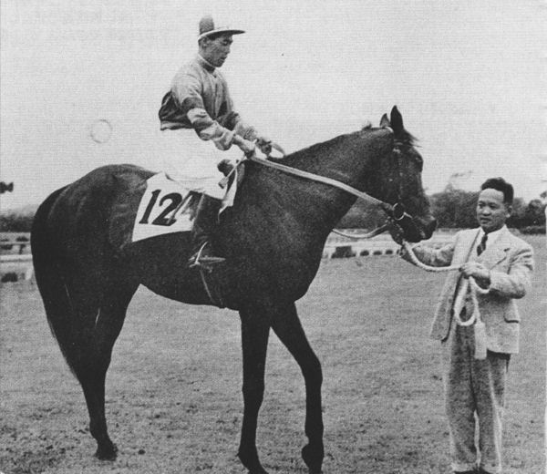 the Japan's first triple crowned St.lite and his owner Yusaku Kato.